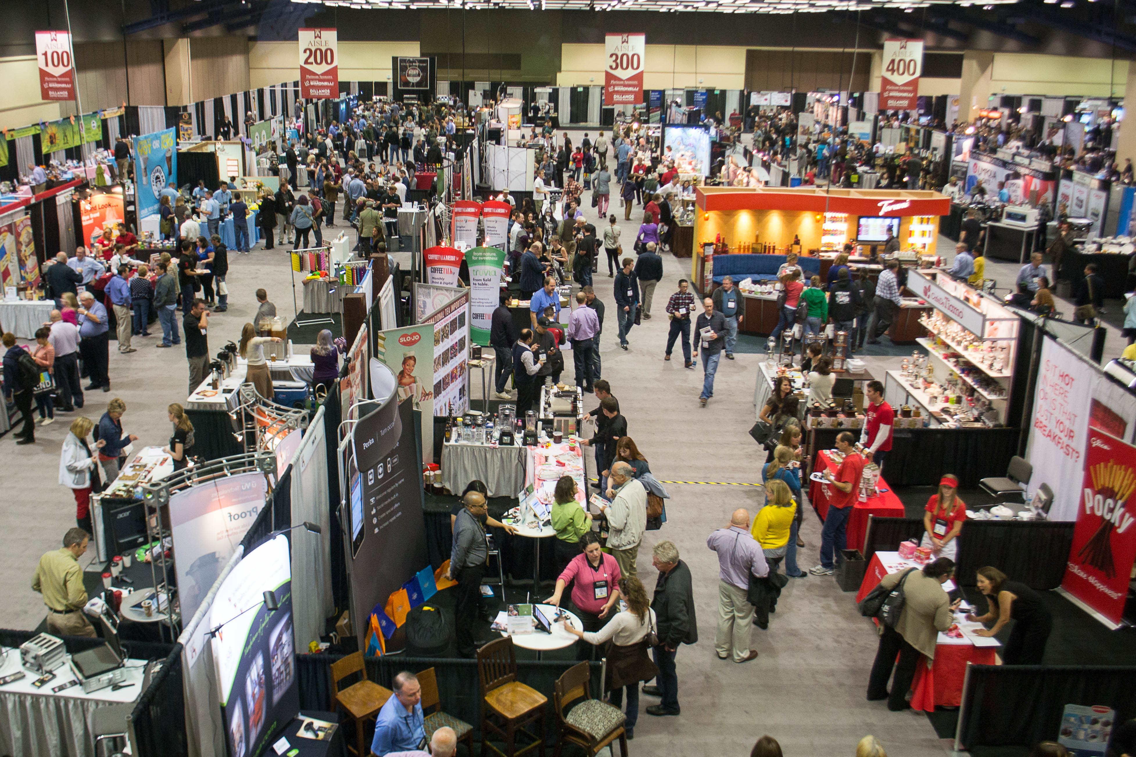 A view of the 2013 Coffee Fest at the Washington State Convention and Trade Center